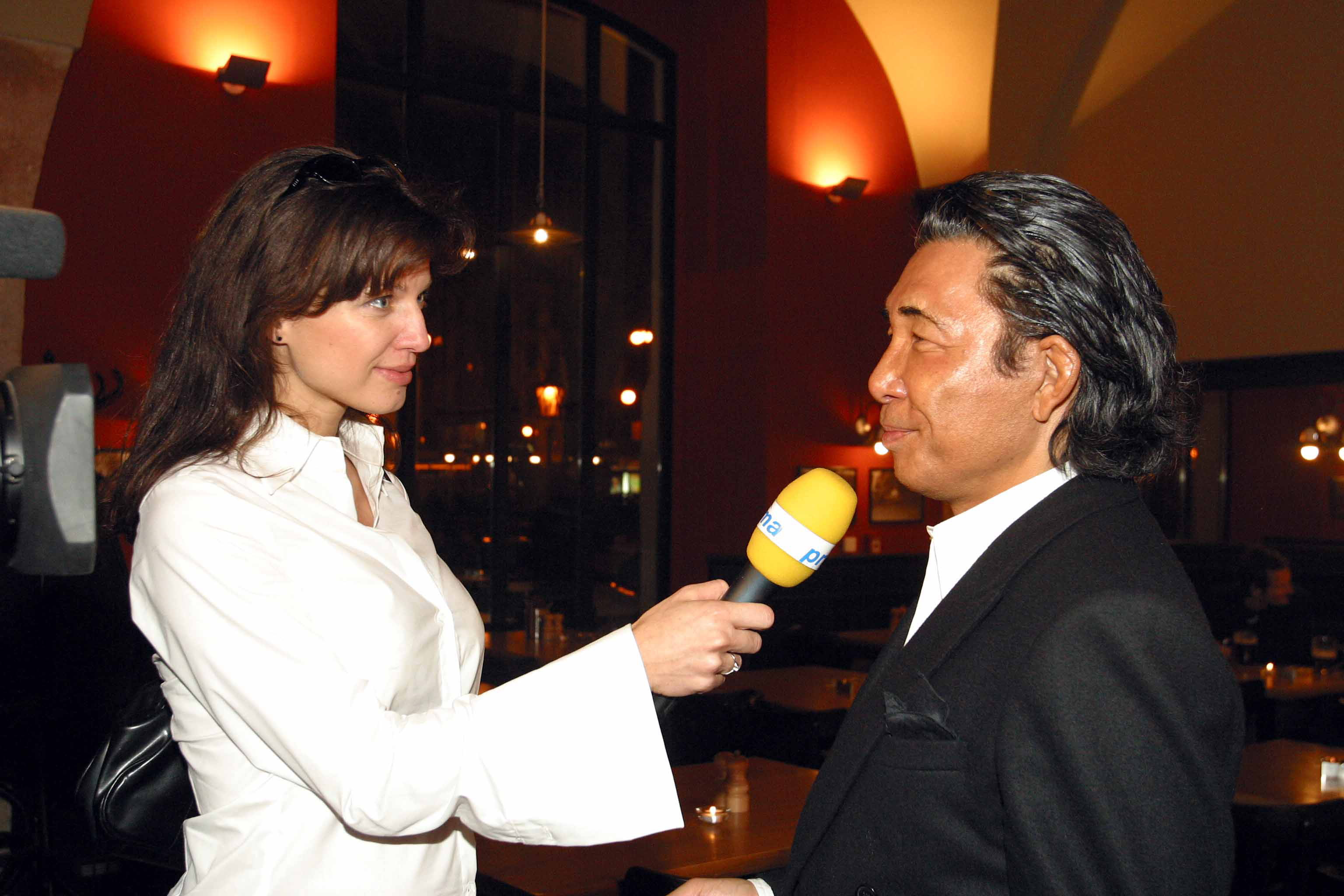 Interview with Kenzo Takada